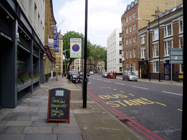 12 Marshalsea Road SE1 1HL This 6 story building was once a gym but has been converted to flats.